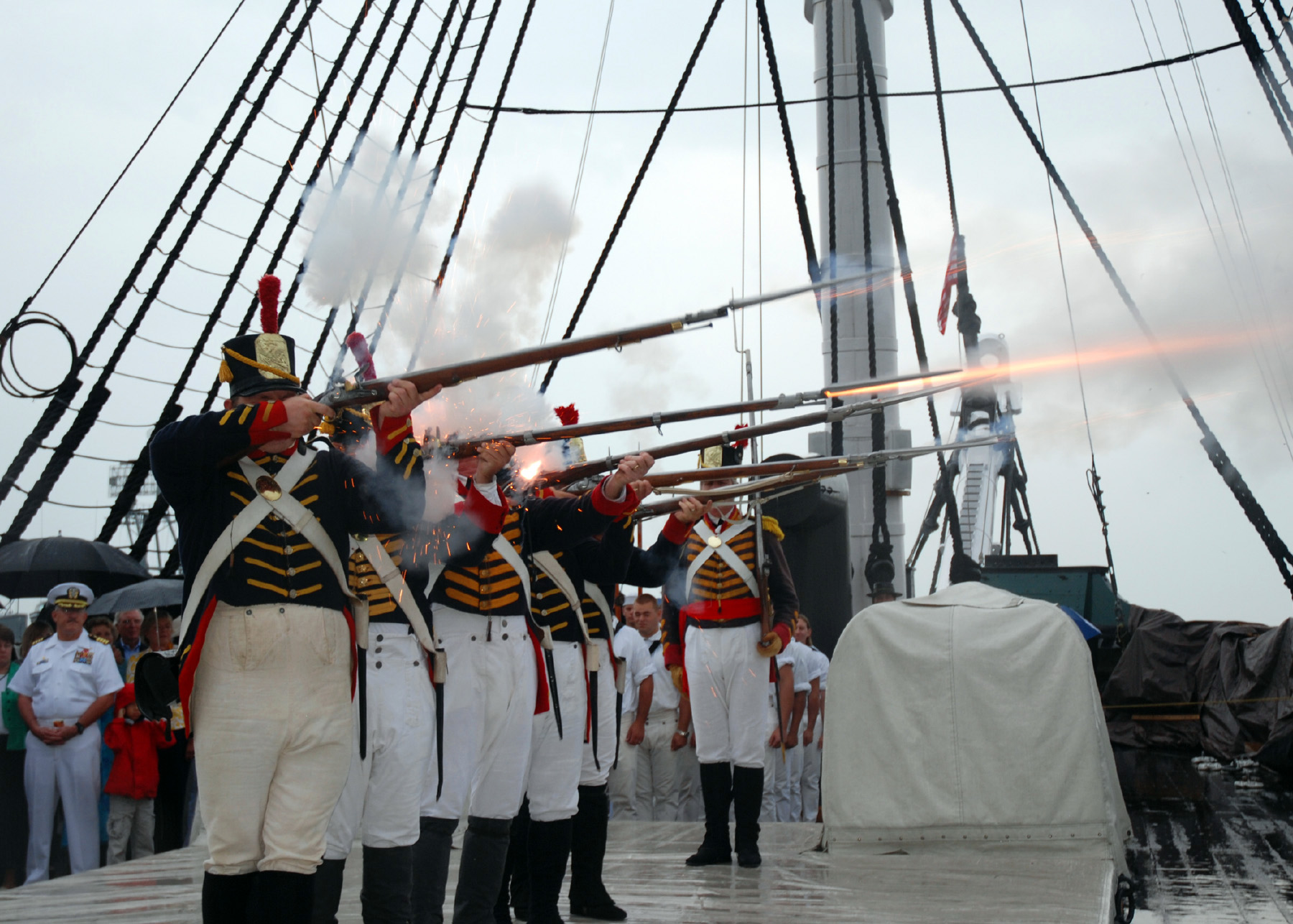 CHARLESTOWN NAVY YARD, Mass. (Aug. 15, 2008) The 1812 Marines demonstrate a musket firing exercise during the USS Constitution vs. HMS Guerriere Battle Commemoration. More than 65 guests and military officials joined the captain and crew for this second annual observance of the battle. Constitution earned her nickname "Old Ironsides" Aug. 19, 1812, when 18-pound iron round shot from the British frigate bounced harmlessly off her oak hull. (U.S. Navy photo by Seaman Brian M. Brooks/Released)